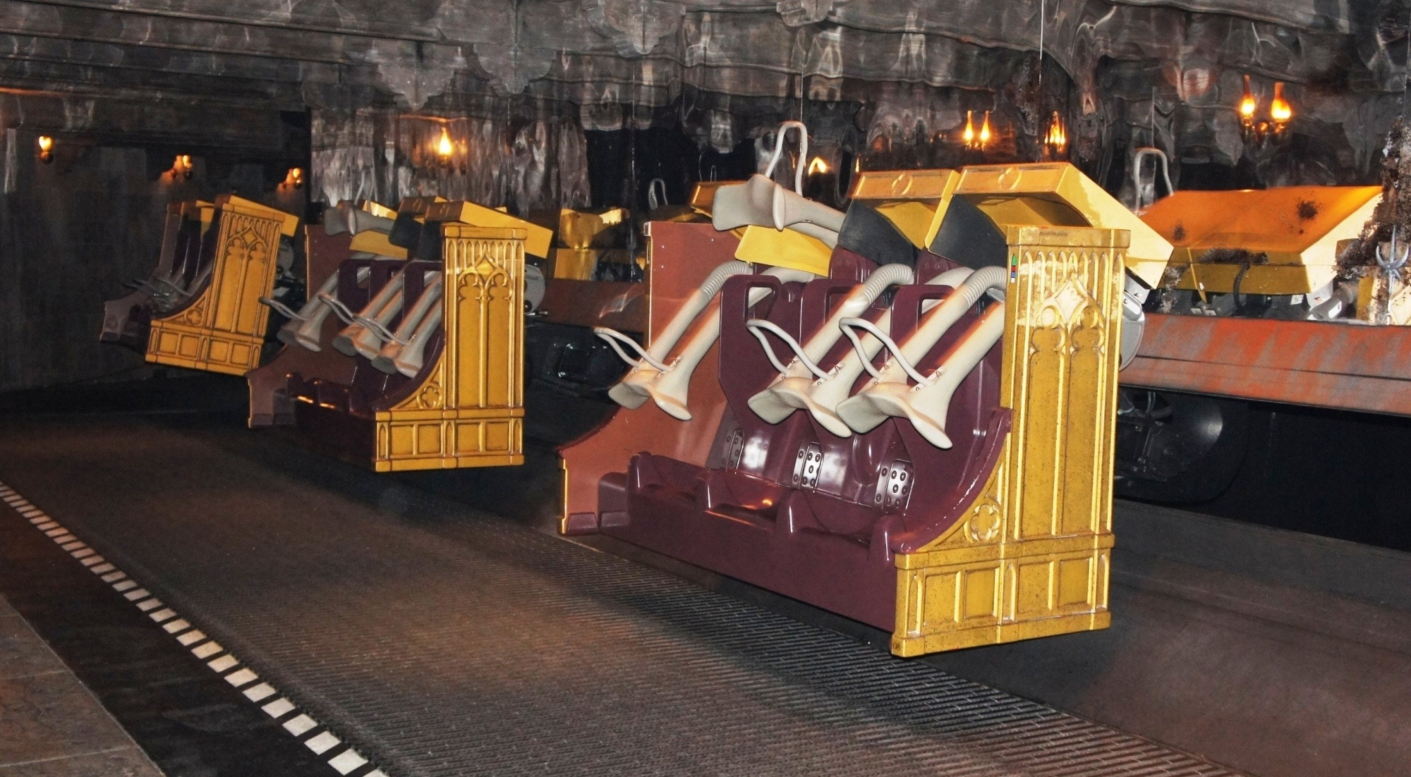 Harry Potter and the Forbidden Journey station at Islands of Adventure. Riders are dispatched in groups of four on "magical benches" attached to robotic arms.